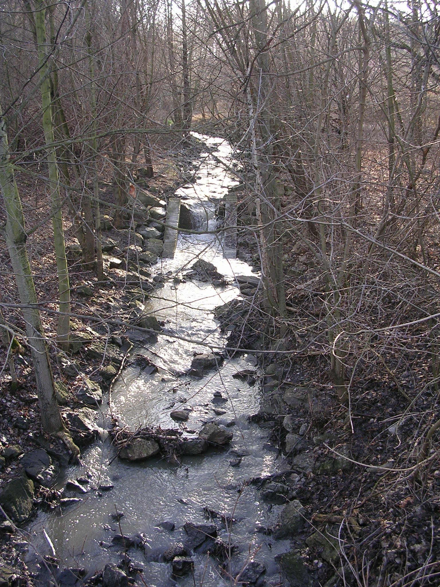 Košíkovský potok, a creek in Prague, Czech Republic